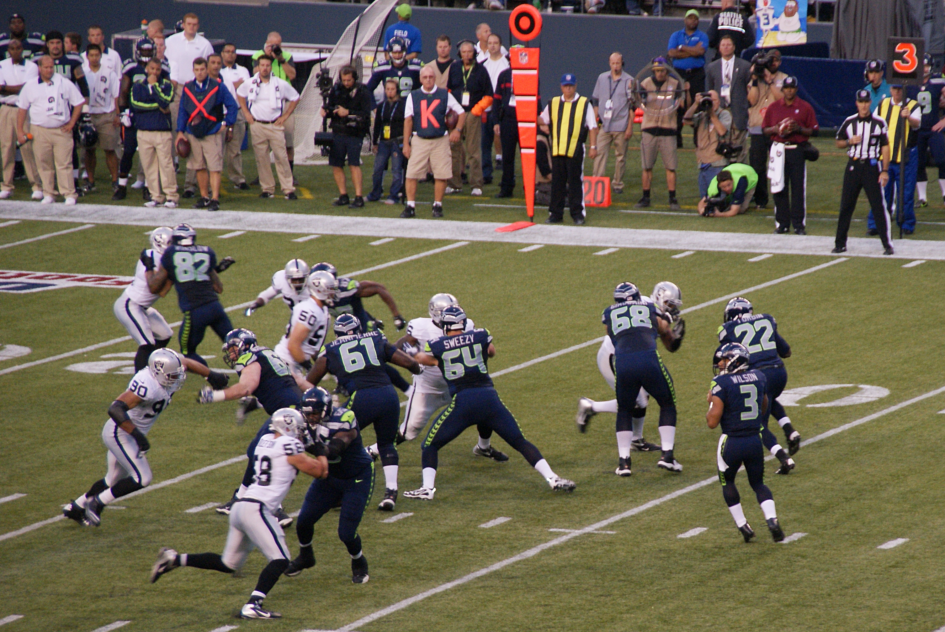 QB Russell Wilson in the Pocket. Century Link Field, Seattle, Washington.